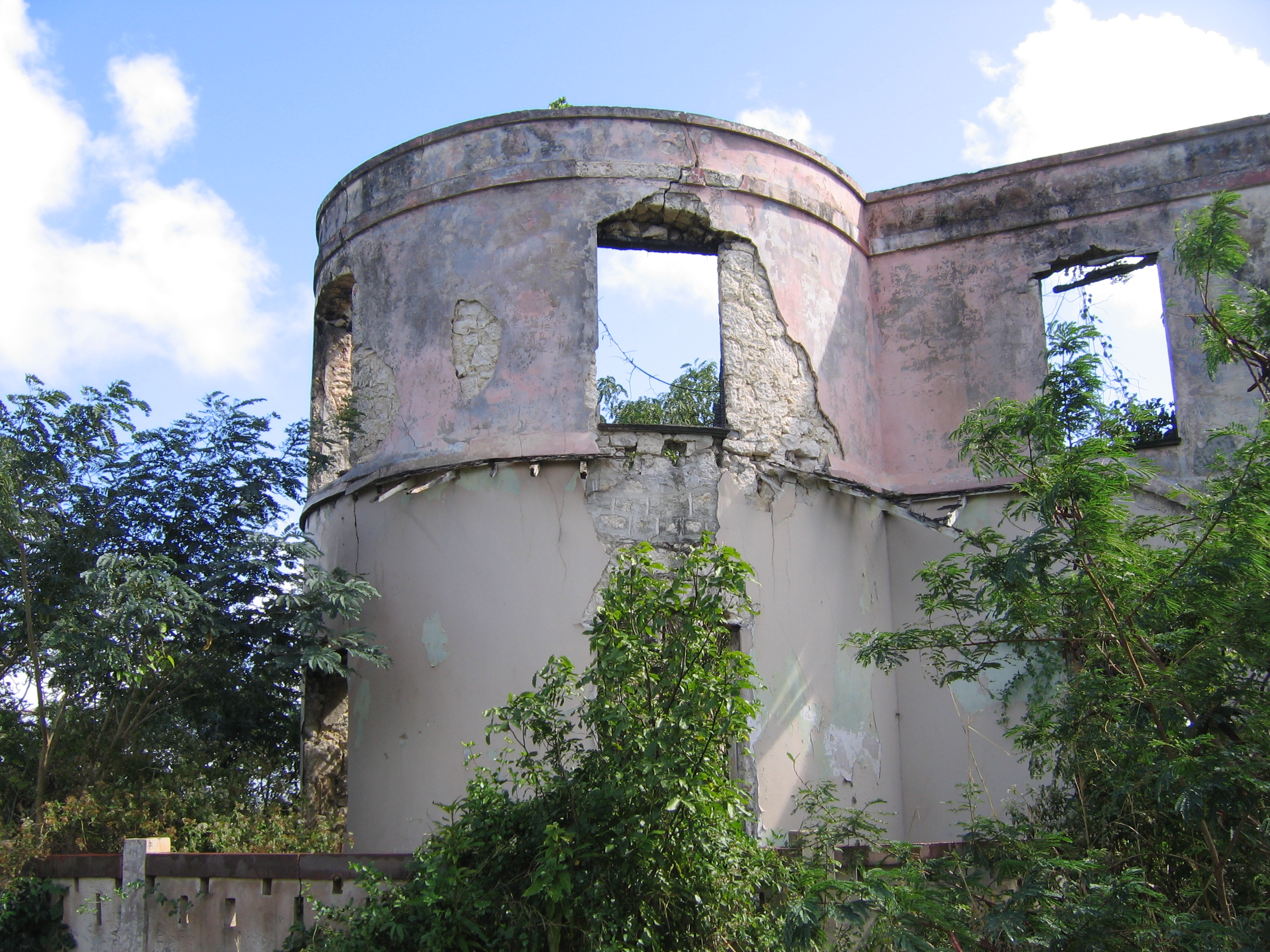 Ruined plantation house in Saint Lucy, Barbados.